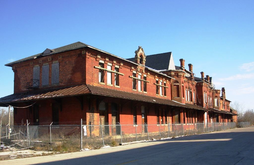 Flint & Pere Marquette Union Station, East Saginaw, Michigan. Built in 1881 for the Pere Marquette Railway. Designed by New York architect, Bradford Lee Gilbert. The station is currently owned by the Saginaw Depot Preservation Corporation (SDPC), a non-profit 501(c) 3 corporation, vacant.